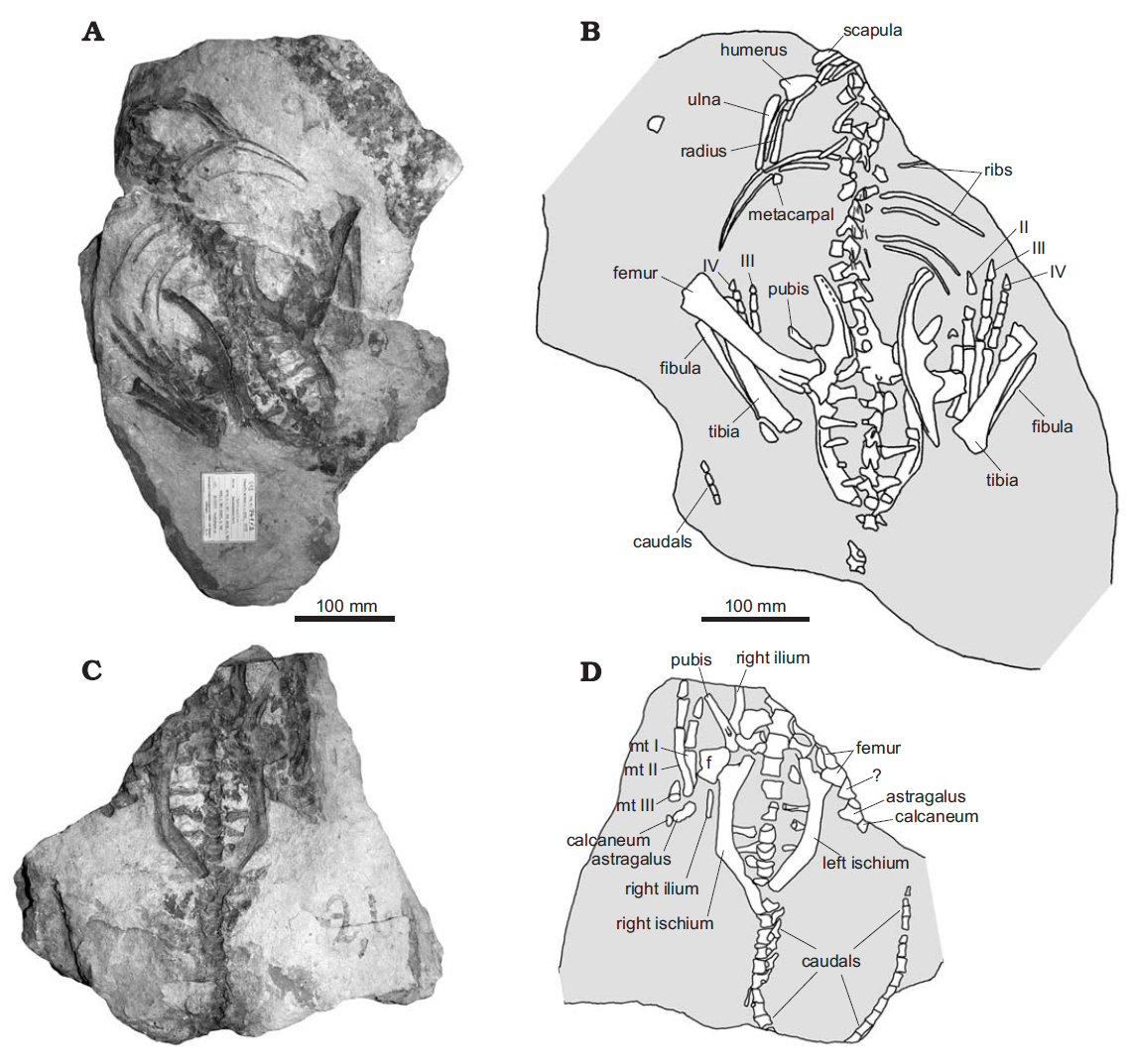 Ornithischian dinosaur Stenopelix valdensis Meyer, 1857, holotype (GZG 741/2, formerly GPI Gö 741−2), from the Obernkirchen Sandstone (Early Cretaceous: Berriasian), near Bückeburg, Niedersachsen, Germany. A. Large sandstone slab. B. Interpretative outline drawing of large latex cast (prepared from large sandstone slab), showing majority of postcranial skeleton in dorsal view. C. Small sandstone slab. D. Interpretative outline drawing of small la− tex cast (prepared from small sandstone slab), showing sacrum and caudals, pelvic region and partial hindlimbs in ventral view. For clarity elements in and around the sacral region have not been labelled—these areas are shown in greater detail in Fig. 3. Roman numerals II–IV correspond to respective digits. Abbreviations: mt, metatarsals; f, femur; ?, unidentified element.